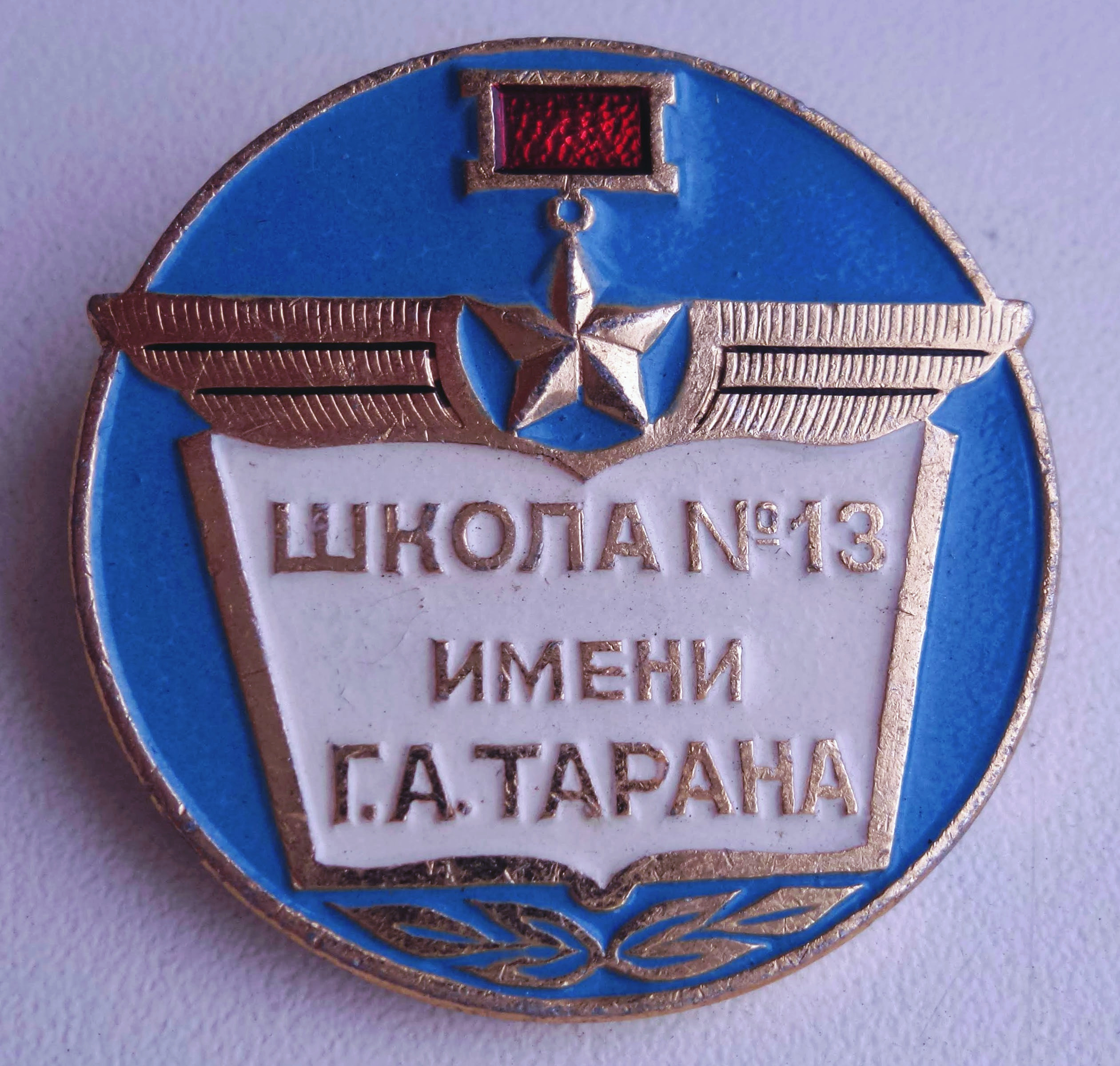 School 13 named after Grigori Taran. Badge of USSR.